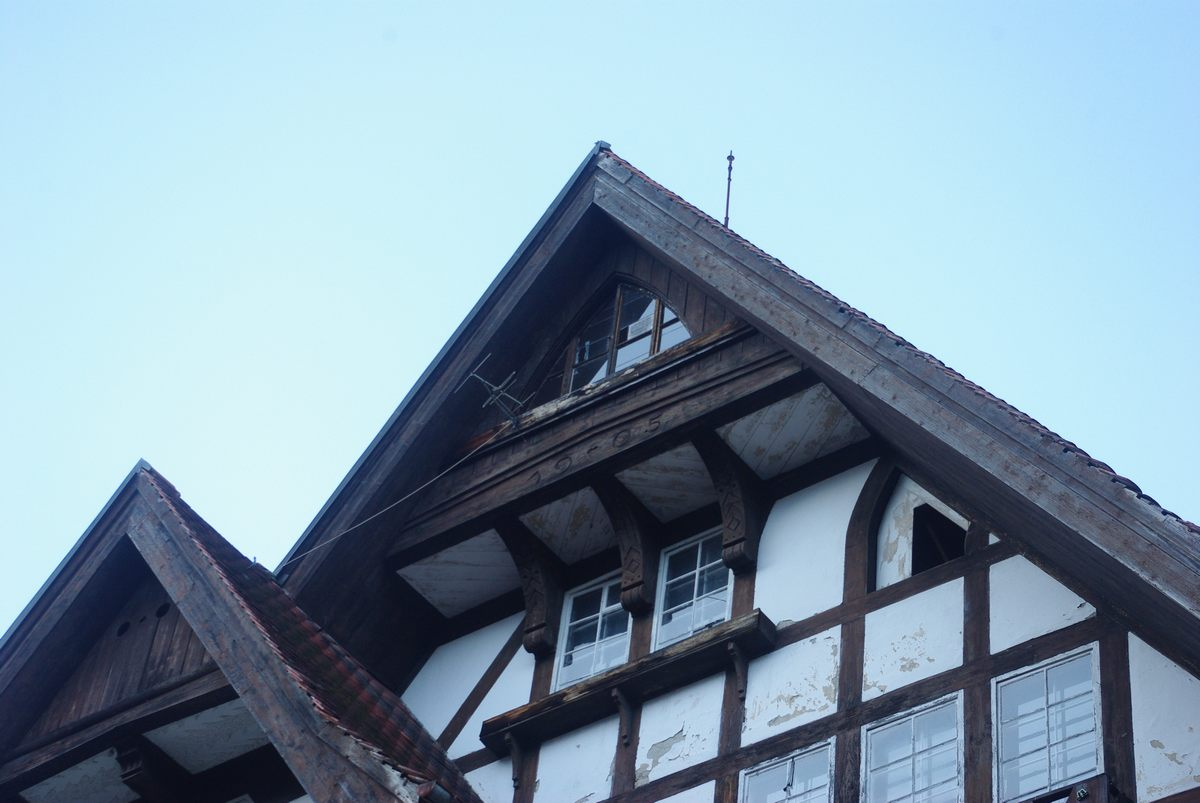 Villa Berchtesgadener Straße 5 in 83457 Bayerisch Gmain This is a photograph of an architectural monument.